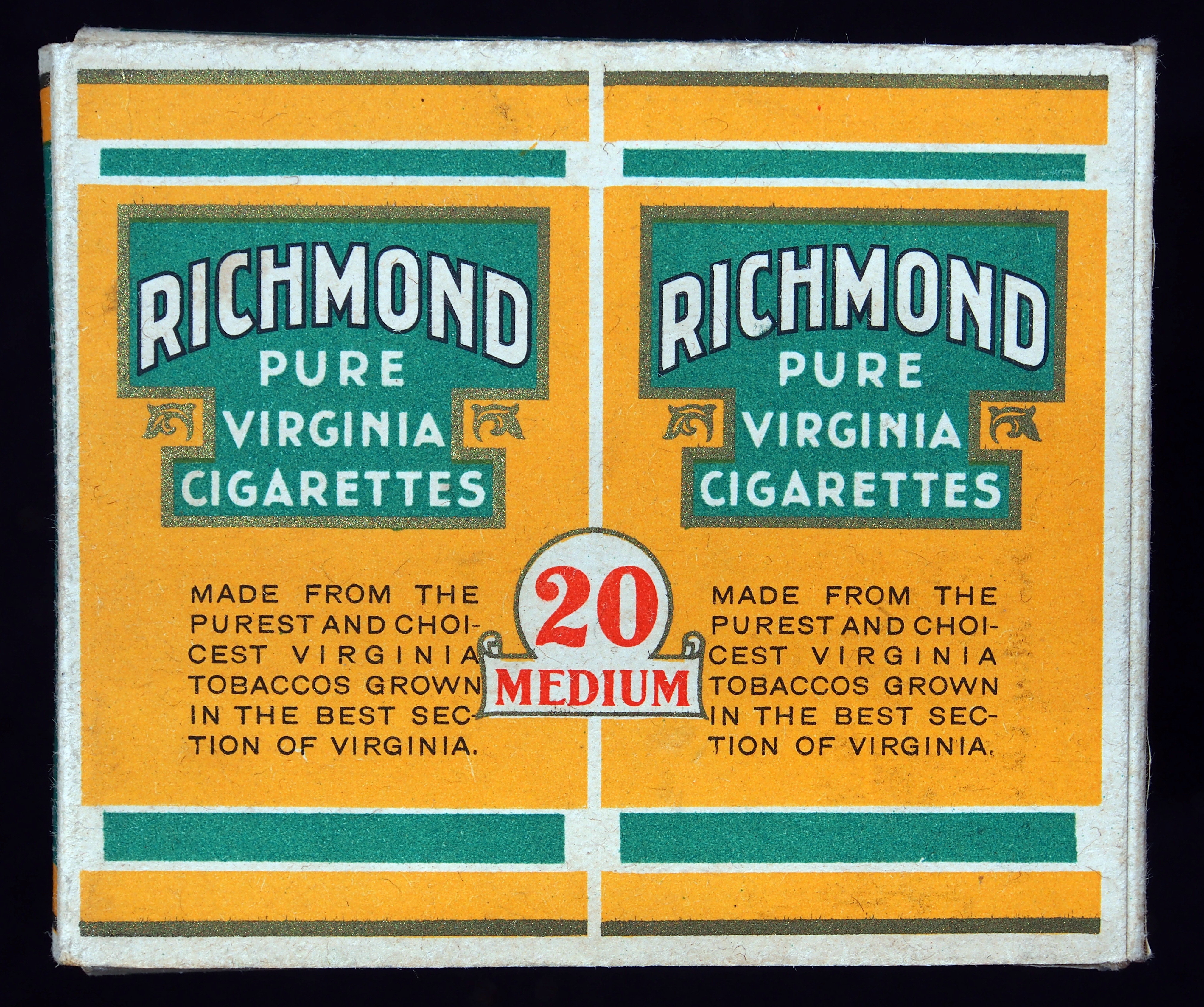 Very old packaging of a product that is not produced and not sold any more.